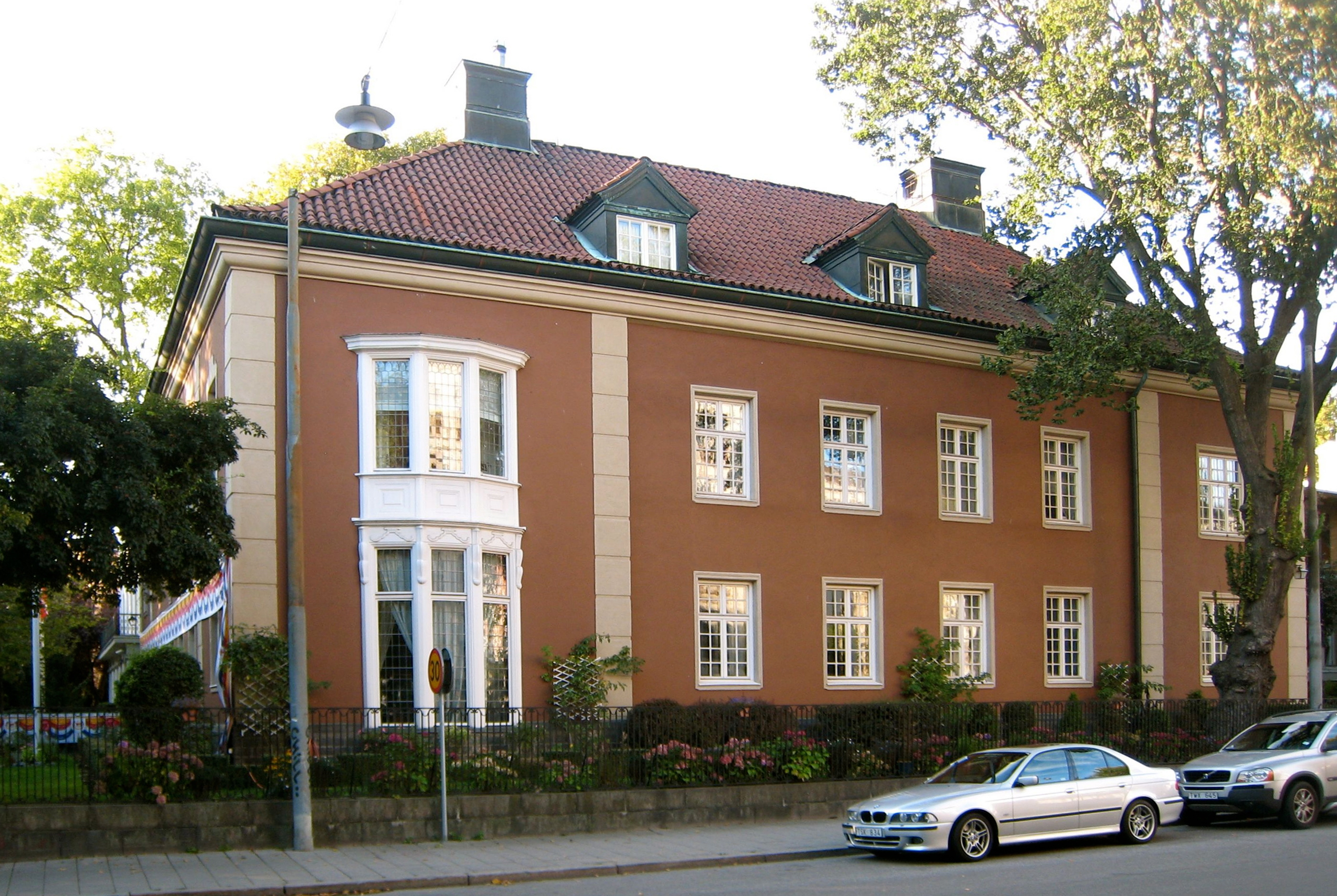 Floragatan 1. The Malaysian embassy in Stockholm.